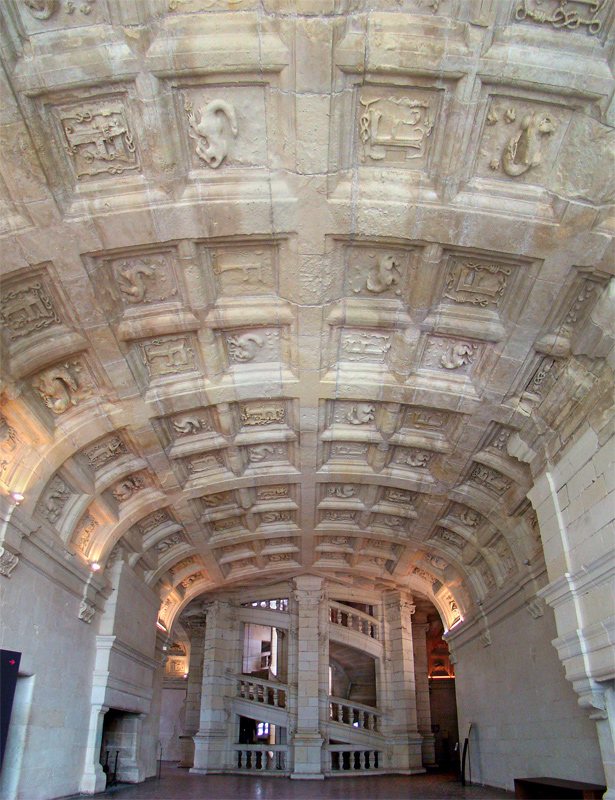 Château de Chambord, Loir-et-Cher, Centre, France. Double-helix staircase and sculpted vault on the second floor.